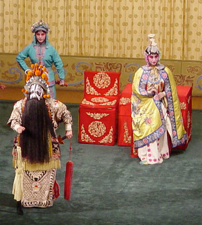 Beijing opera production detail from original used to produce :Image:BejingOperaProduction.jpg. Image and upload by User:Leonard G